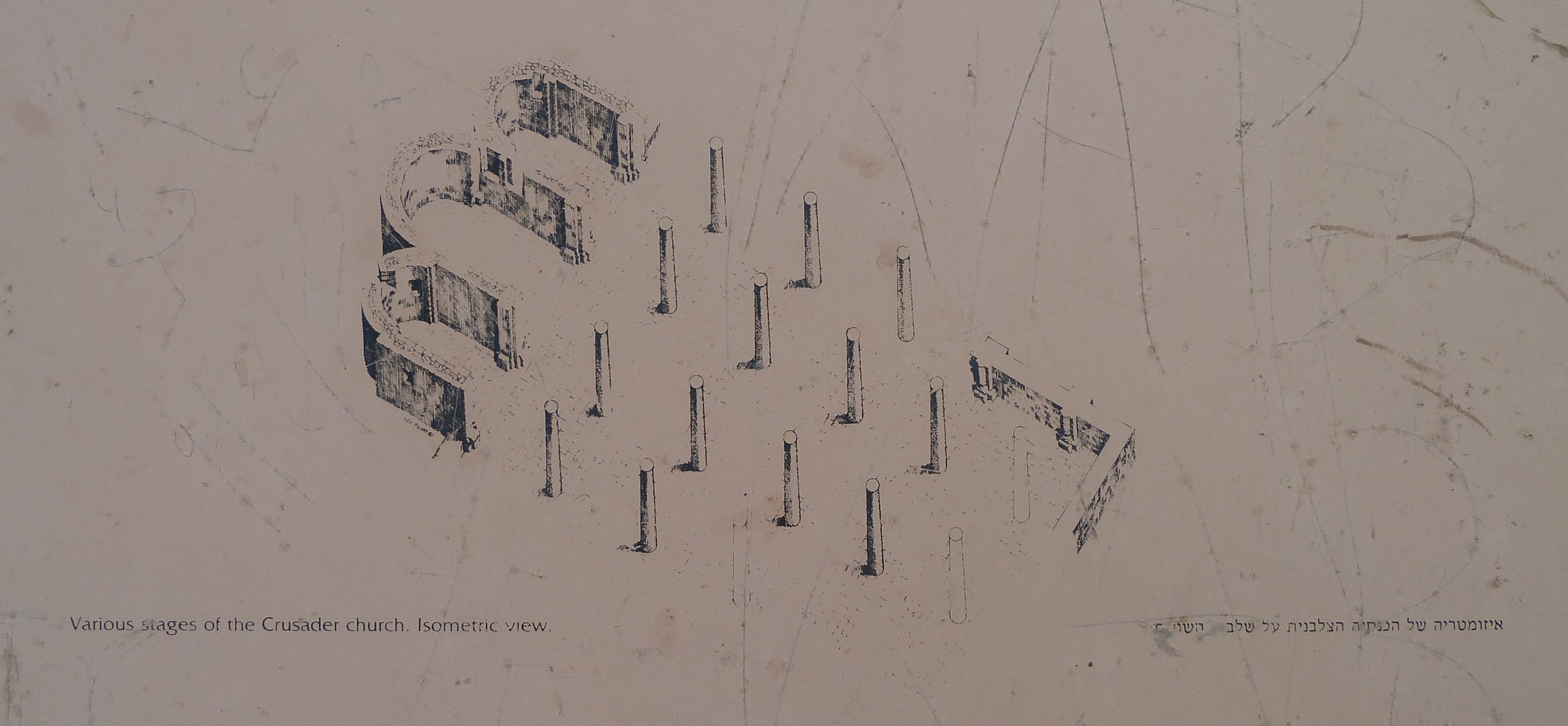 Crusader Church of Caesarea Maritima, Israel